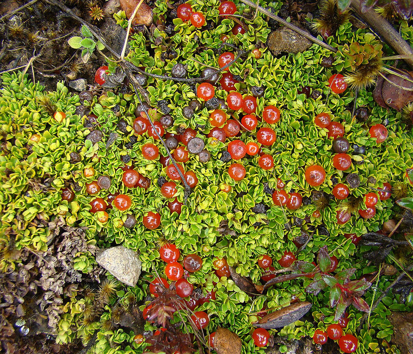 A mat plant of mountain paramos from Guatemala to Peru. Referred to as Tomatillo Sylvestre, when referred to at all. Photo from Parque los Quetzales, Costa Rica. In context at